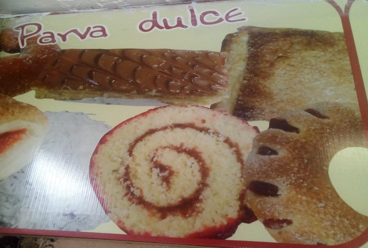 pastry from Medellín Colombia using the word parva